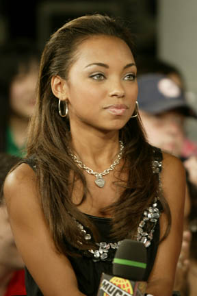 The cast of the 2007 film Bratz, at MuchMusic for a MuchOnDemand episode.